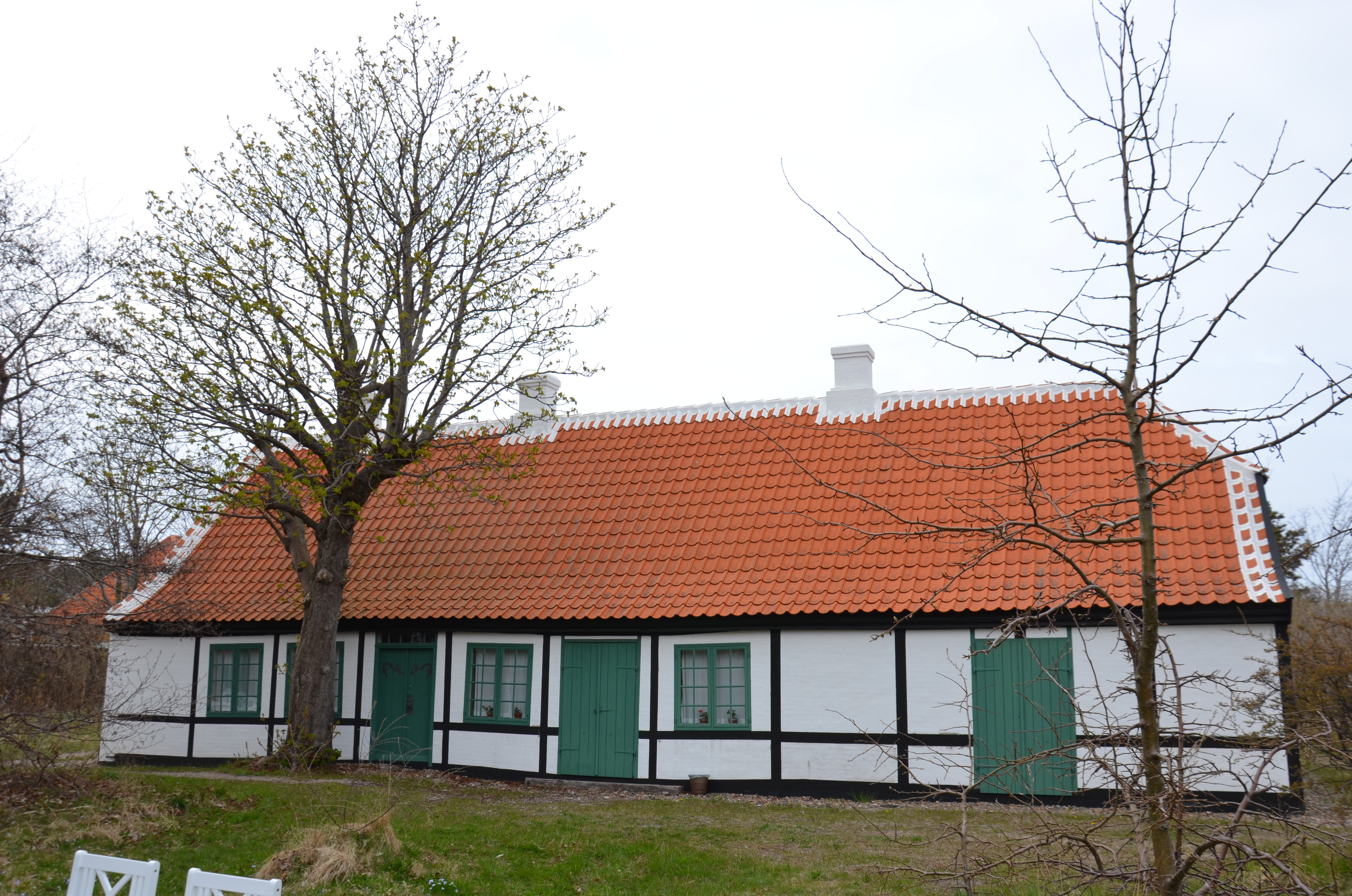 Holger Drachmann's cottage in Skagen